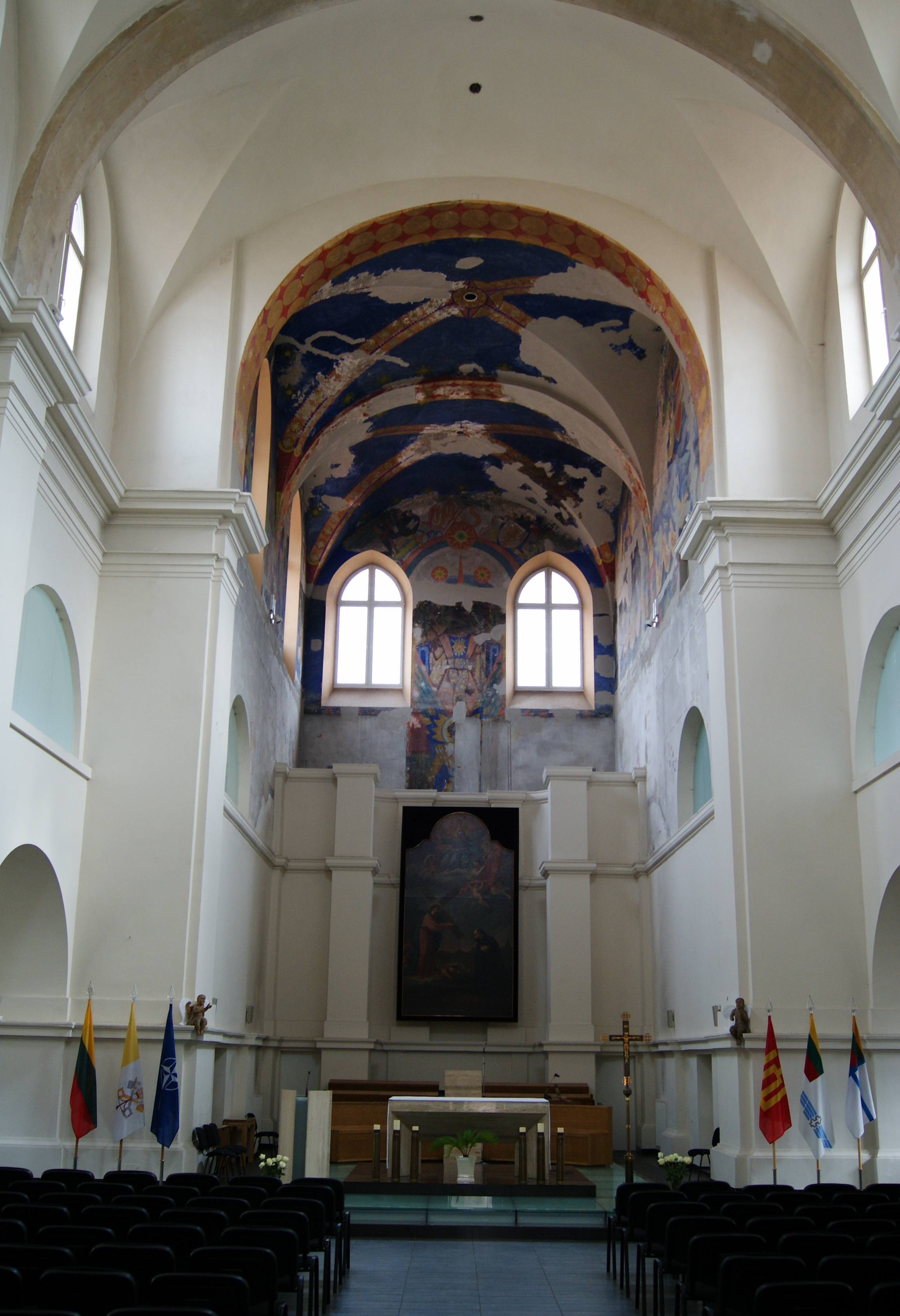 Saint Ignatius church, Vilnius